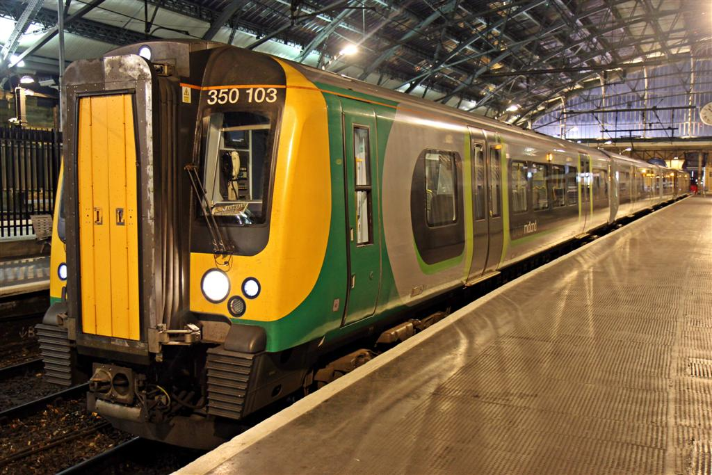 Class 350 EMU, Lime Street Station, Liverpool